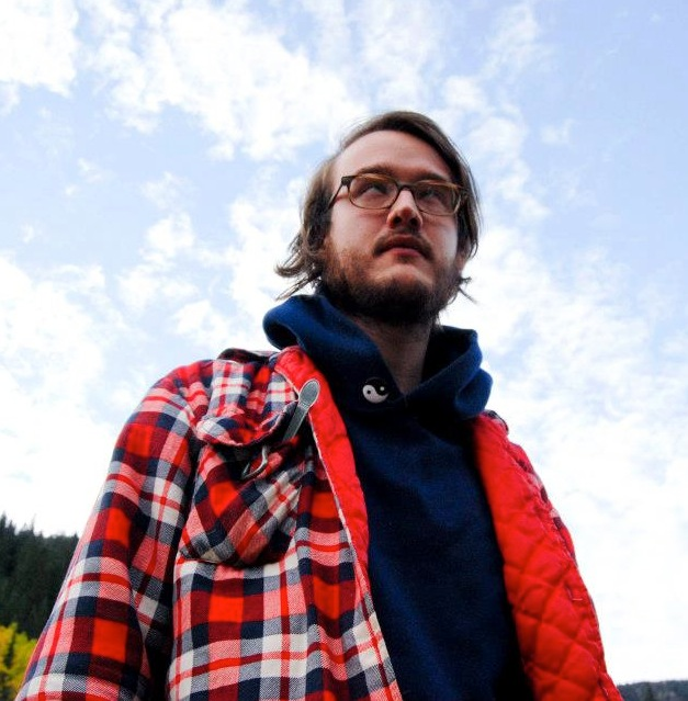 photo of Nate Henricks